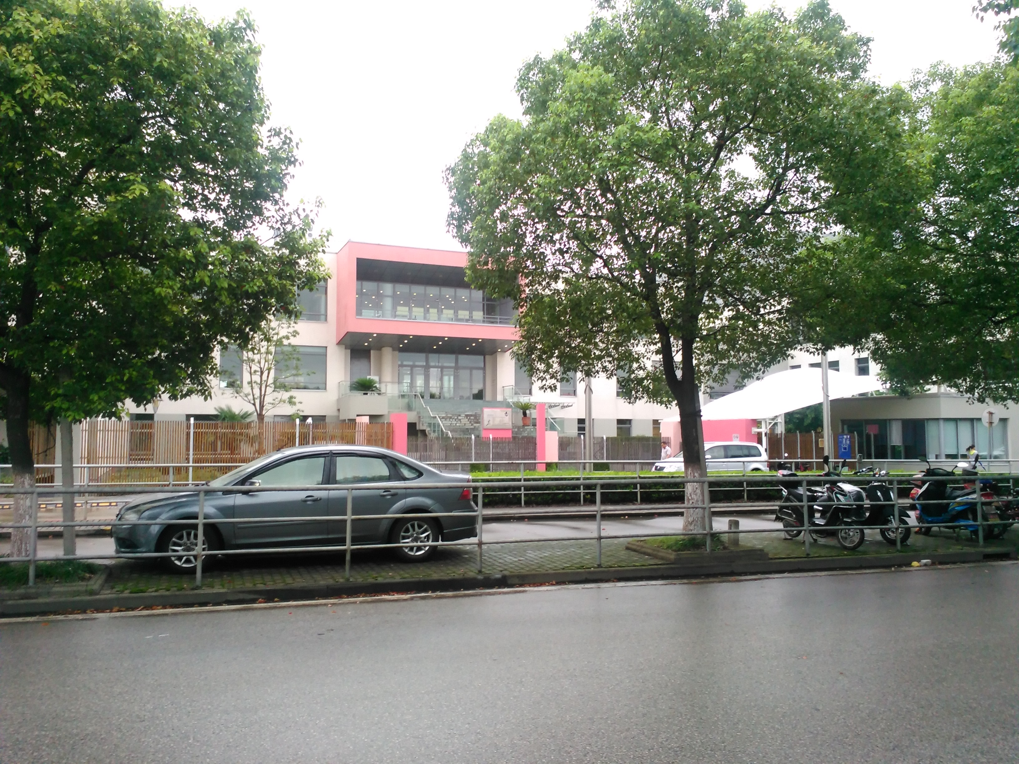 German School Shanghai and French School of Shanghai EuroCampus - 350, Gao Guang Lu, Qingpu District 201702 Shanghai